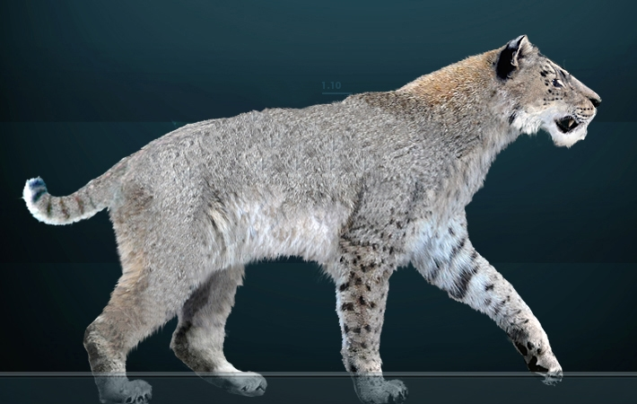 Homotherium serum. A extinct felid.